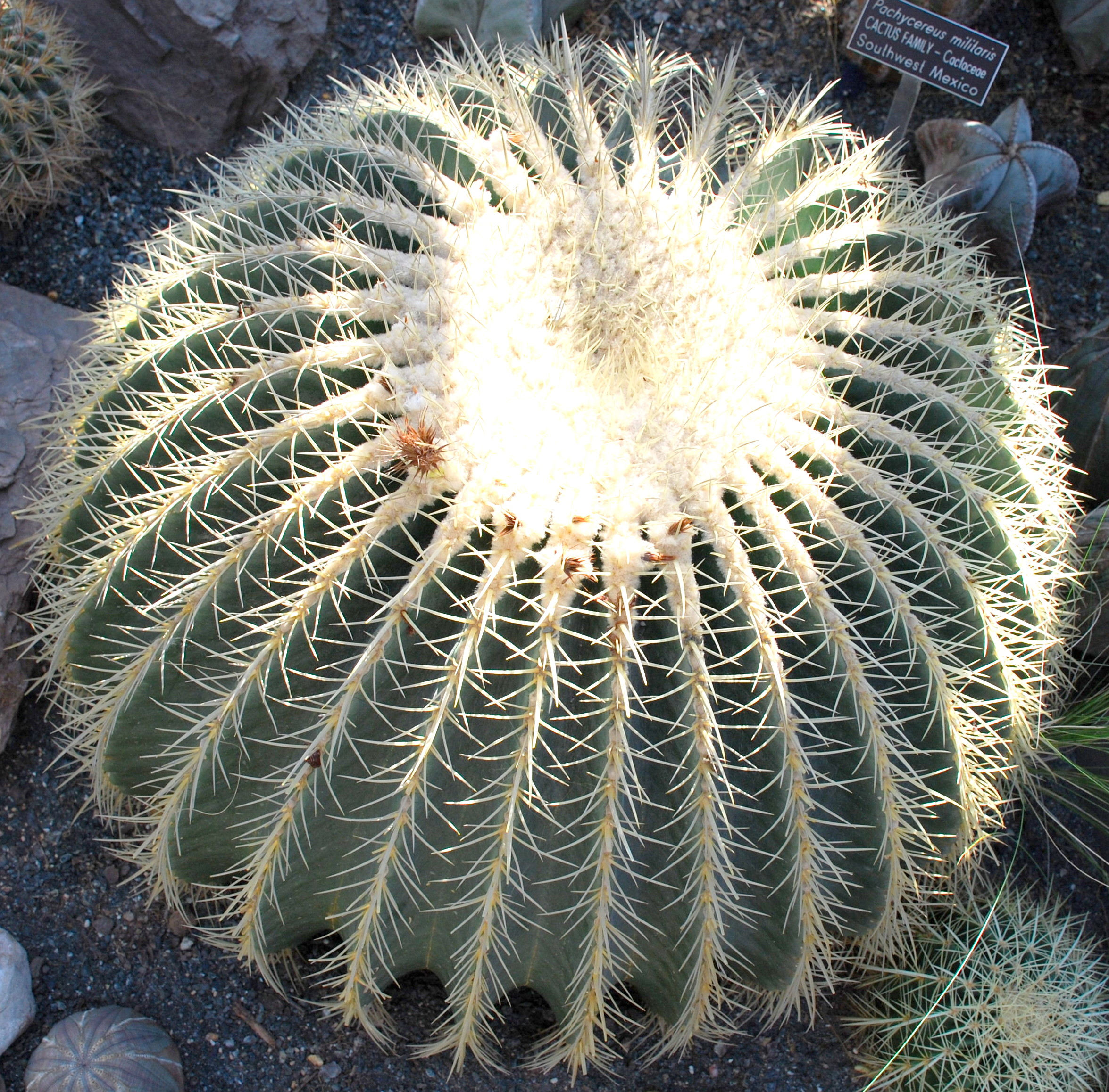 Picture of the top of echinocactus grusonii from the United States Botanical Garden